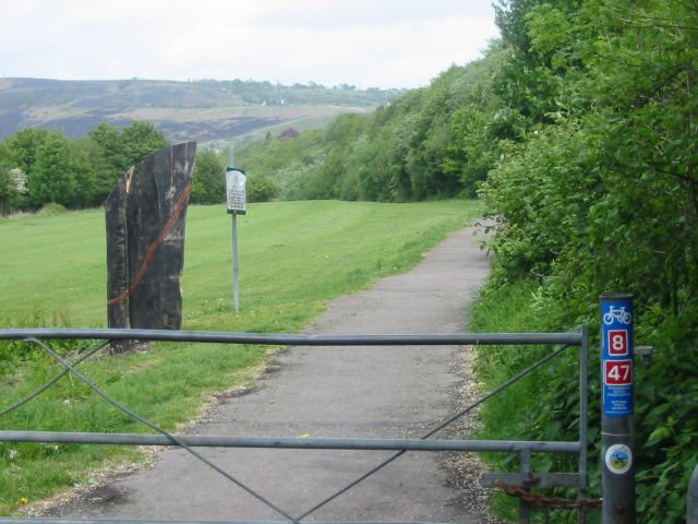 Taff Trail (National Cycle Route 8 & 47) leaving Pontypridd northwards, Wales